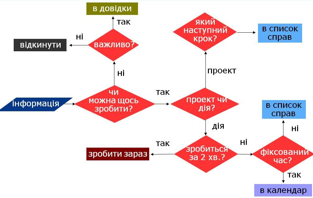 Time management algorithm